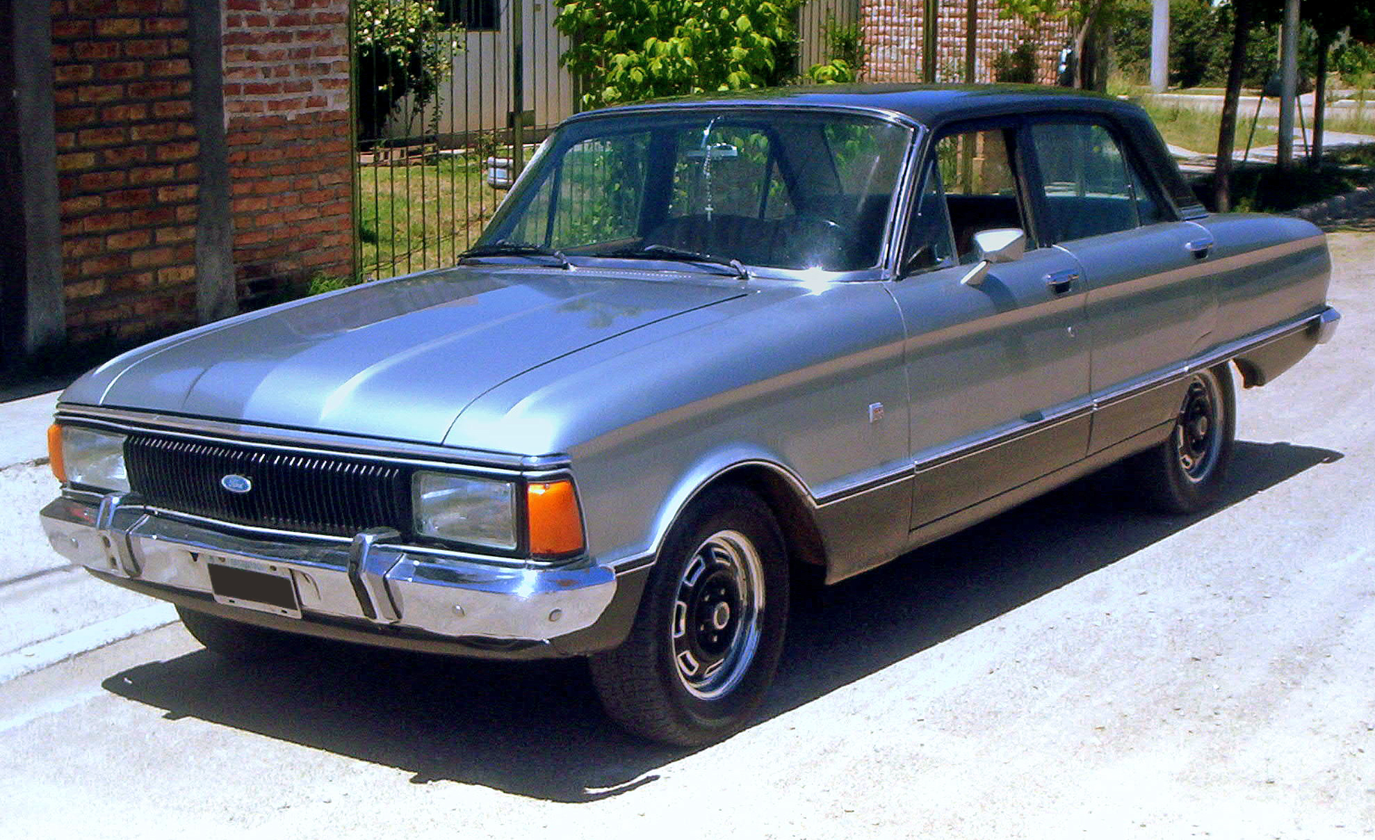 Argentinian built Ford Falcon Sprint